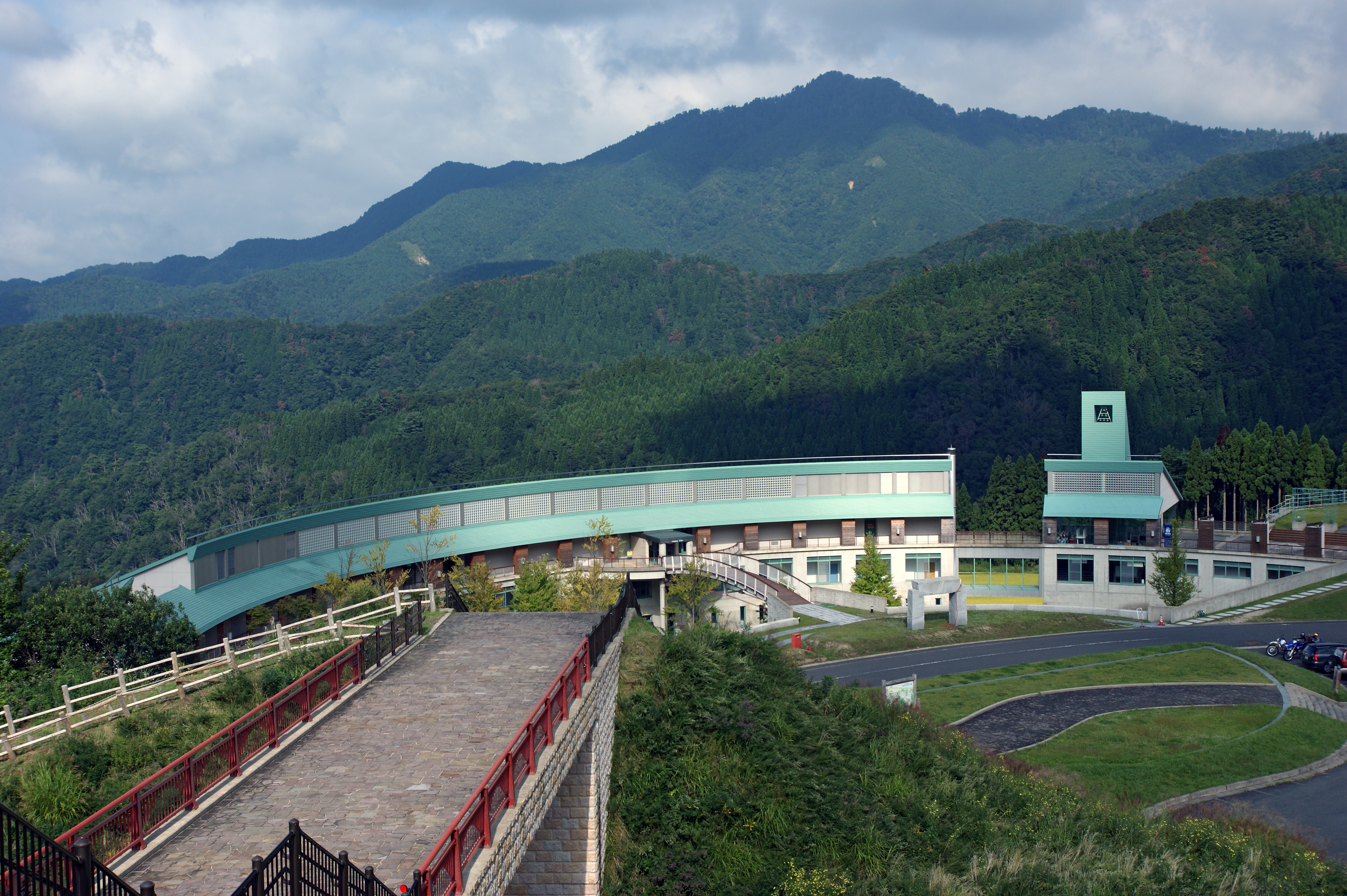 Hotel Hyota-kun in Wakasa, Tottori prefecture, Japan